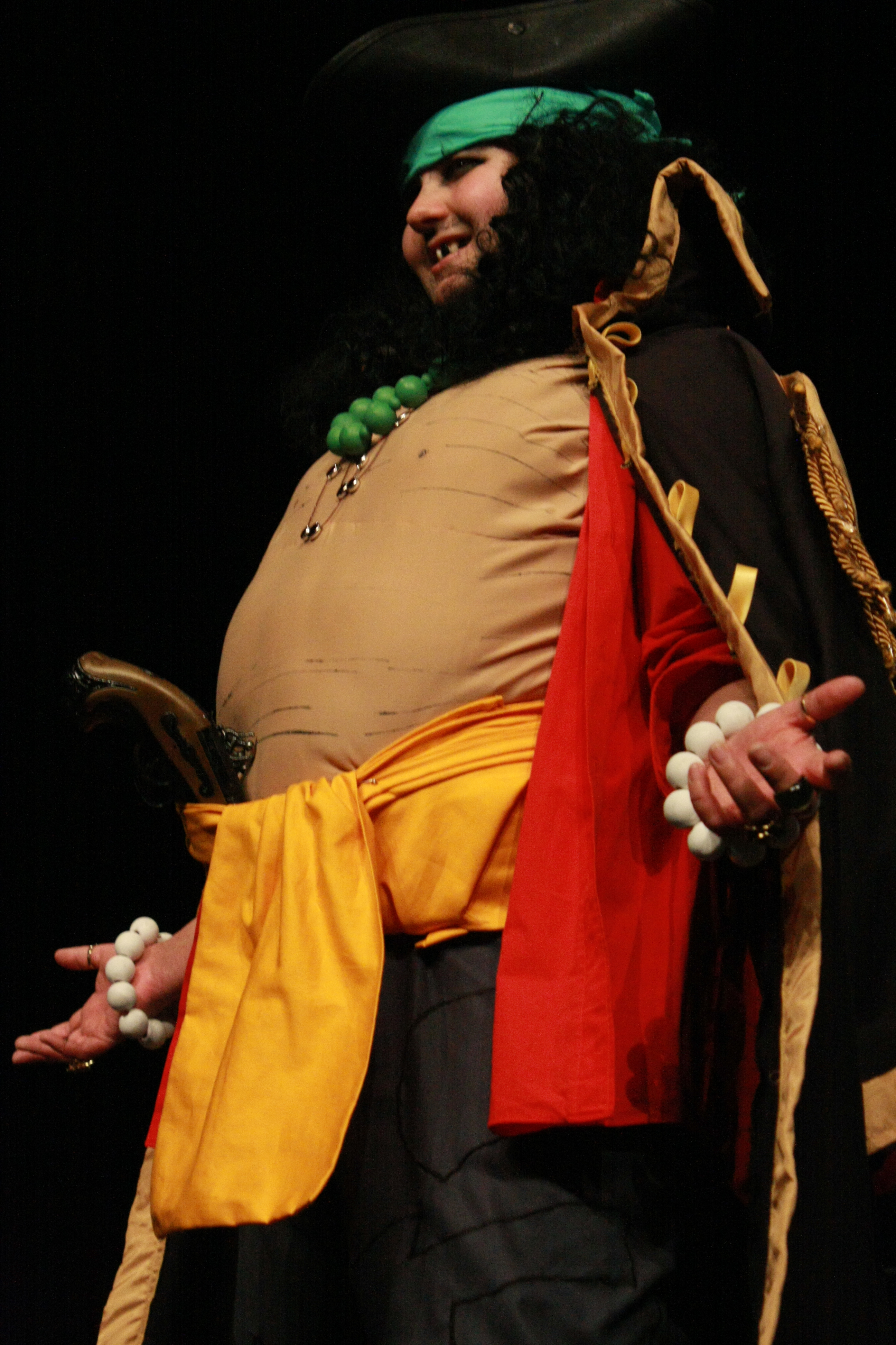 Marshall D. Teach